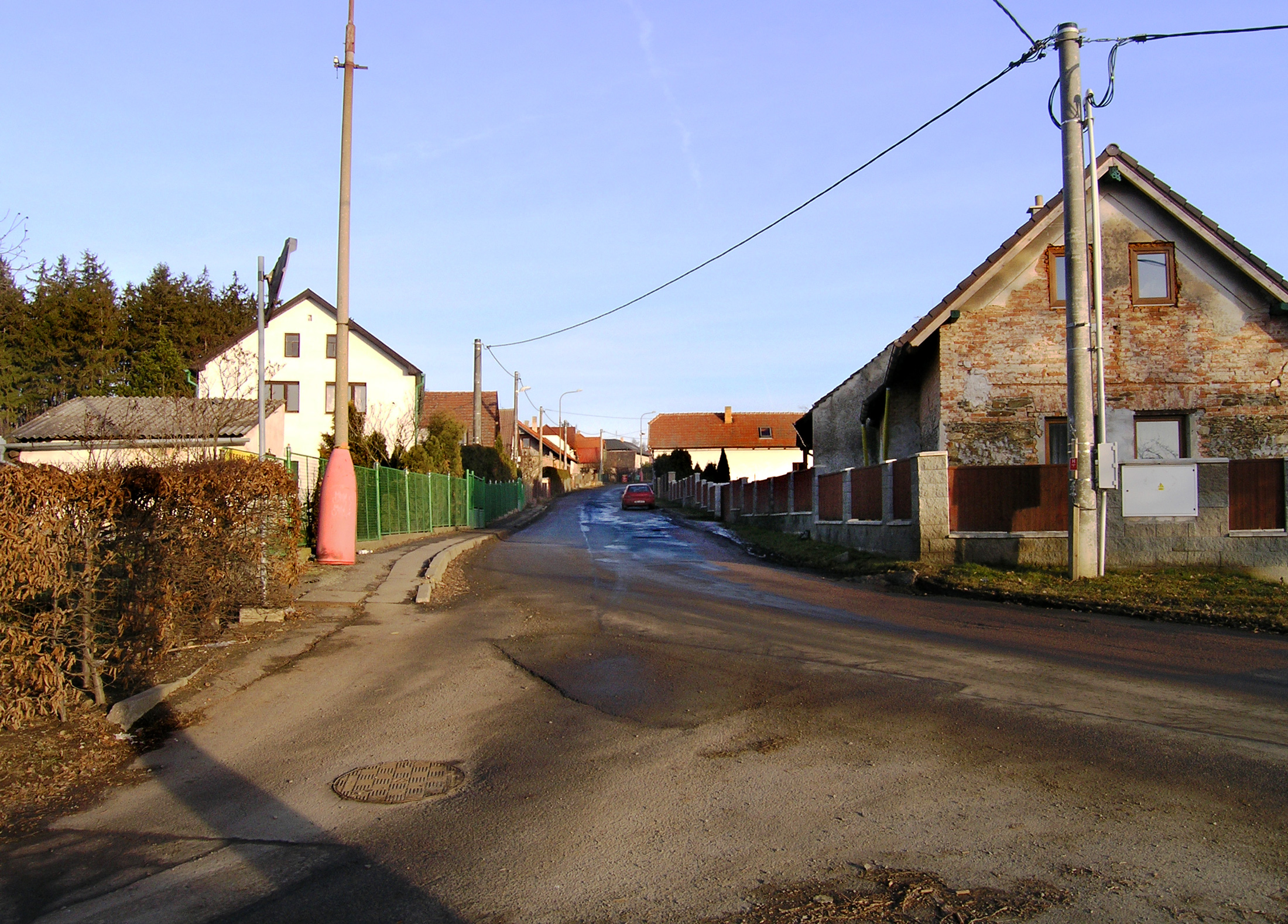 Na Lada street in Světice, Czech Republic